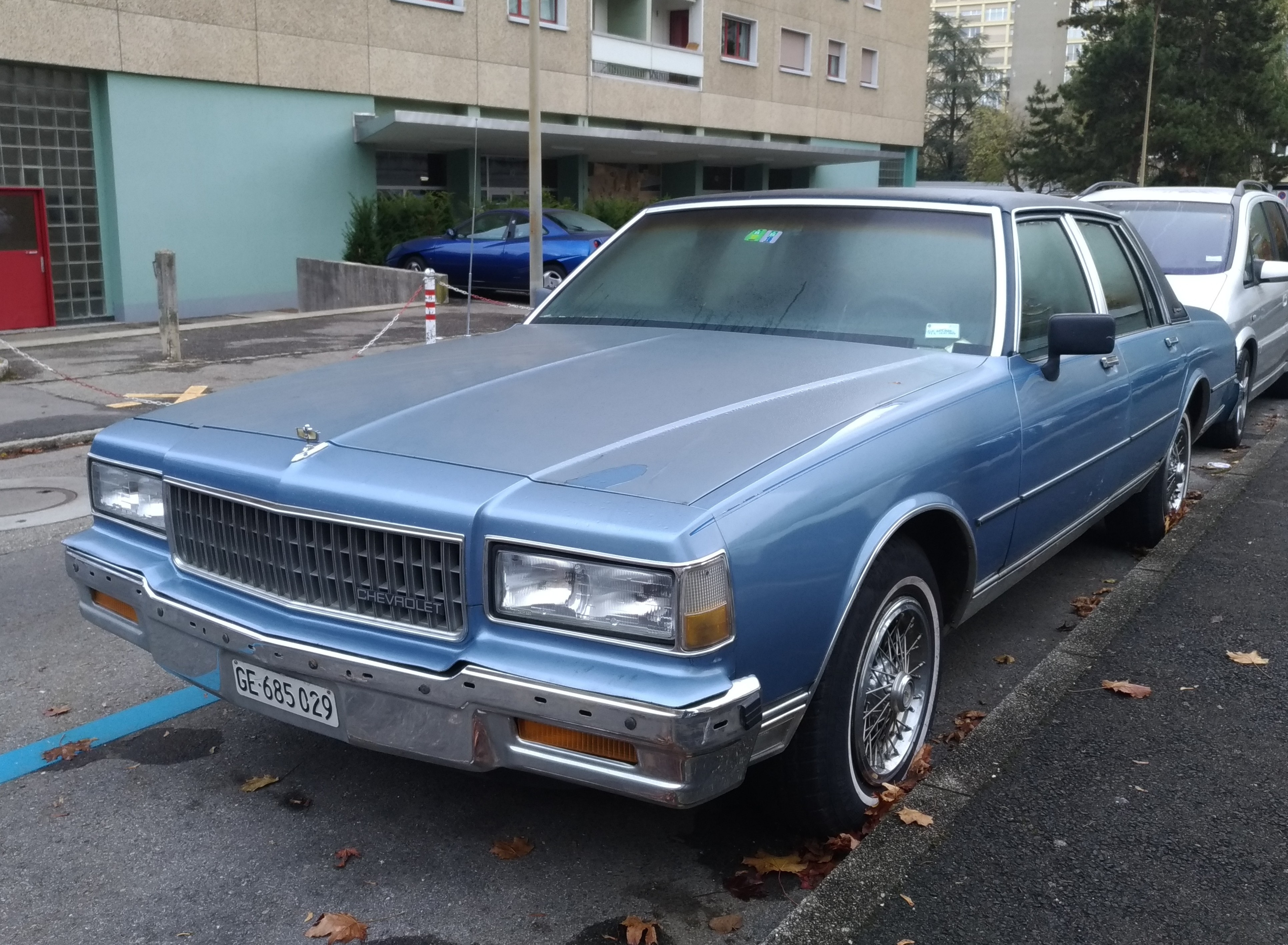 Chevrolet Caprice Classic